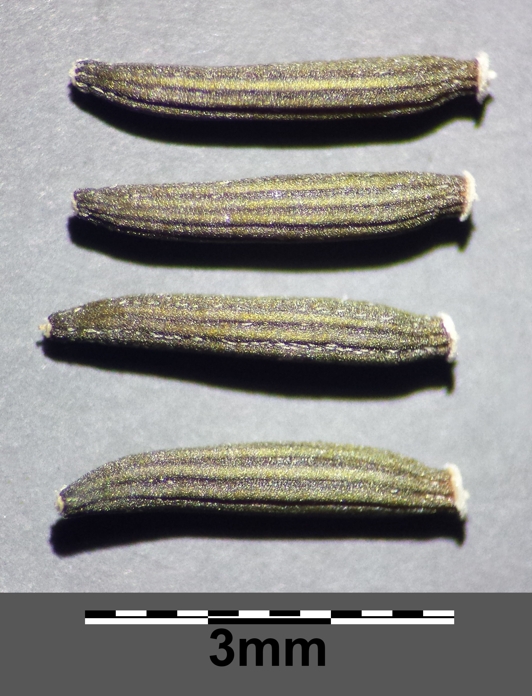 Fruits Taxonym: Senecio viscosus ss Fischer et al. EfÖLS 2008 ISBN 978-3-85474-187-9 Location: Jedlersdorf rail station, Vienna-Floridsdorf - ca. 160 m a.s.l. Habitat: ballast